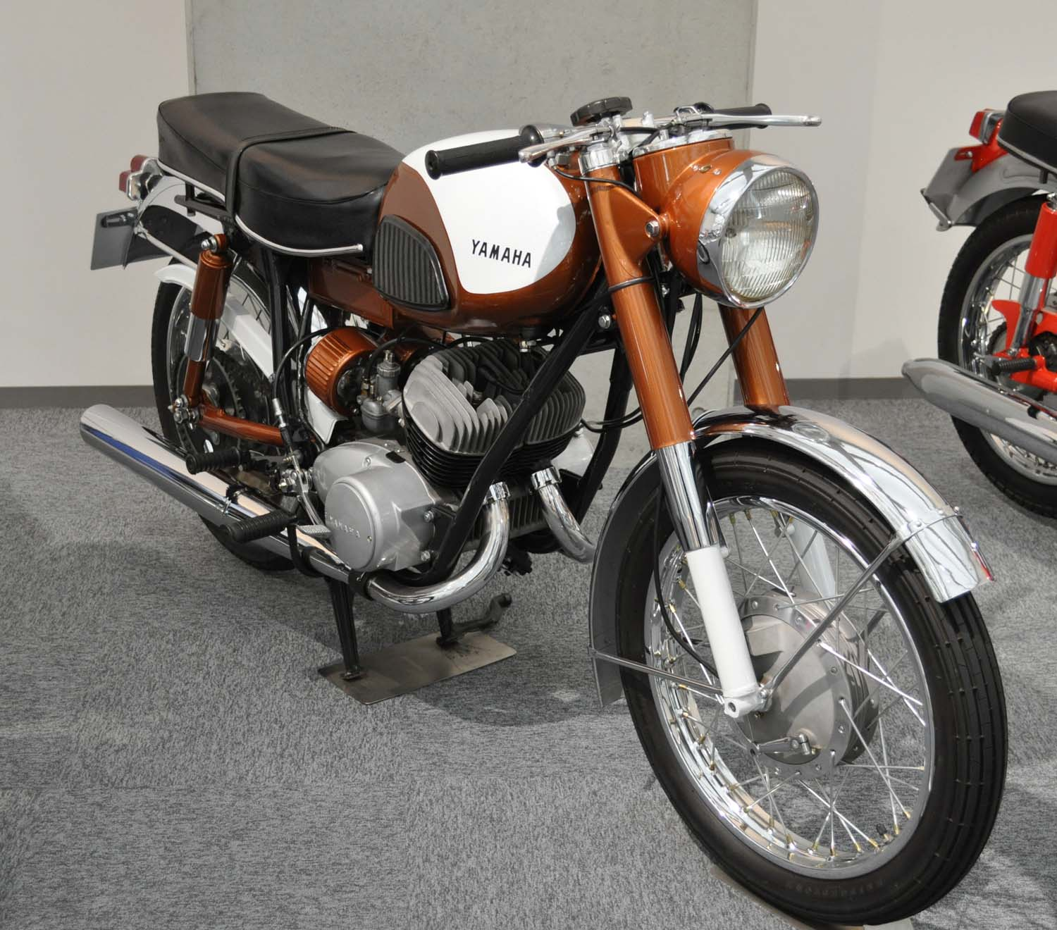 Yamaha Sports 250S YDS-1 (1959)